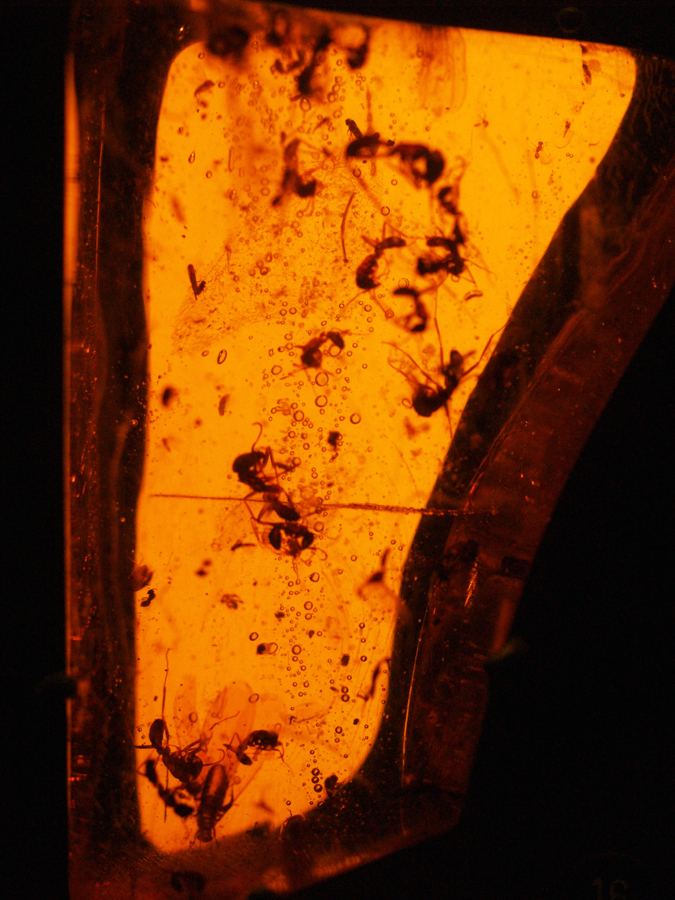 Ants, mayfly and other insects in amber (Miocene Epoch, Mombasa, Kenya, Africa) HMNS 641 Wikipedia Loves Art at the Houston Museum of Natural Science This photo of item # [1] at the Houston Museum of Natural Science was contributed under the team name "Assignment_Houston_One" as part of the Wikipedia Loves Art project in February 2009. Houston Museum of Natural Science The original photograph on Flickr was taken by sulla55—please add a comment to the original Flickr page whenever a use has been made on Wikipedia or another project. Project galleries on Flickr: this institution, this team